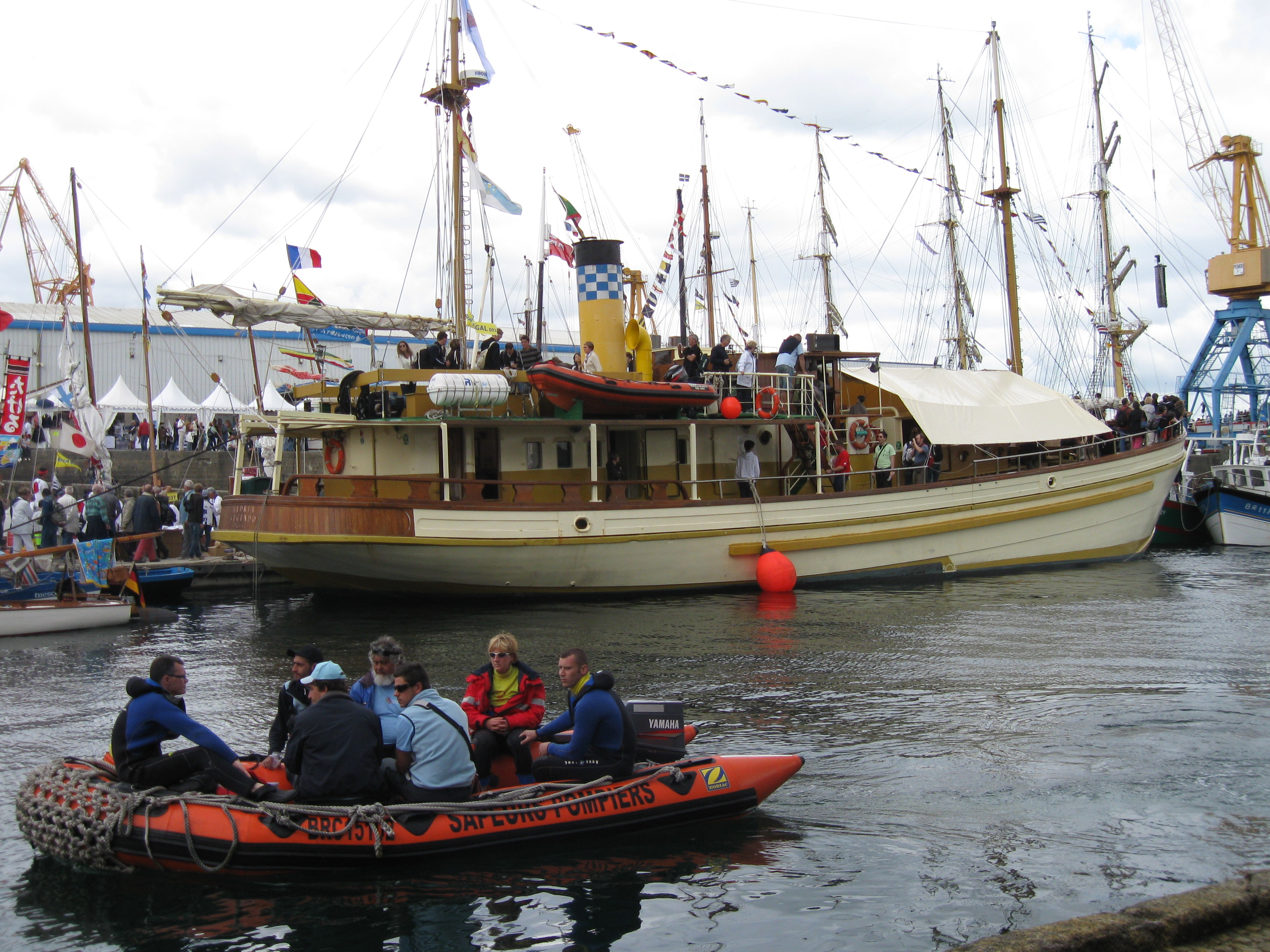 Spanish (Galician) vapor ship Hidria Segundo